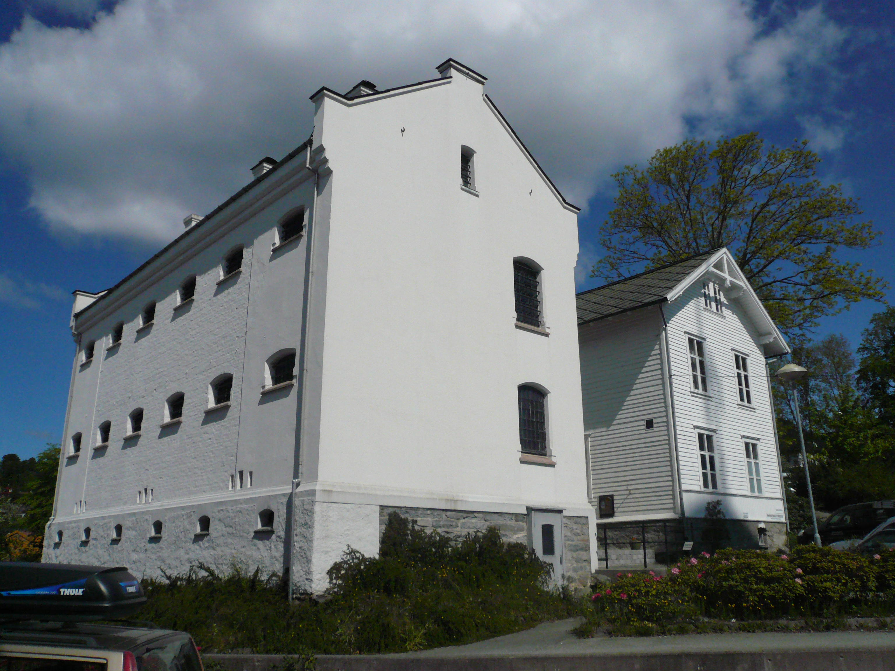 Leirvik prison, 1863-64